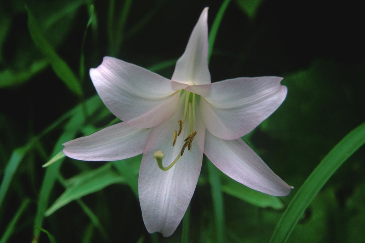 Lilium japonicum seen in Mount Kasa, in Hida Mountains, , Gifu prefecture, Japan.